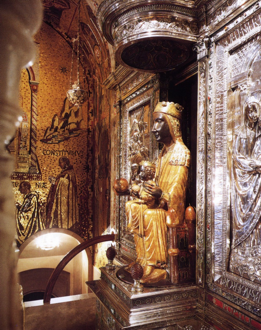 The Virgin of Montserrat